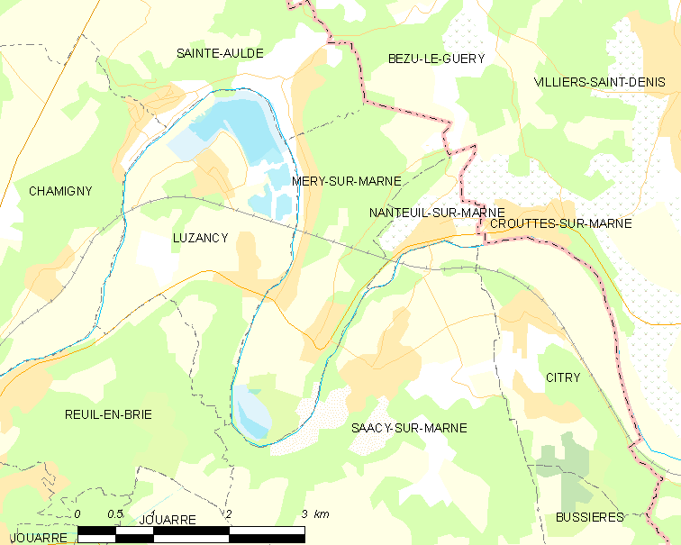 Map of French municipality Méry-sur-Marne